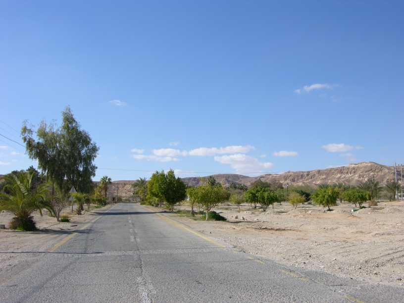 Kibbutz Yahel, entry road